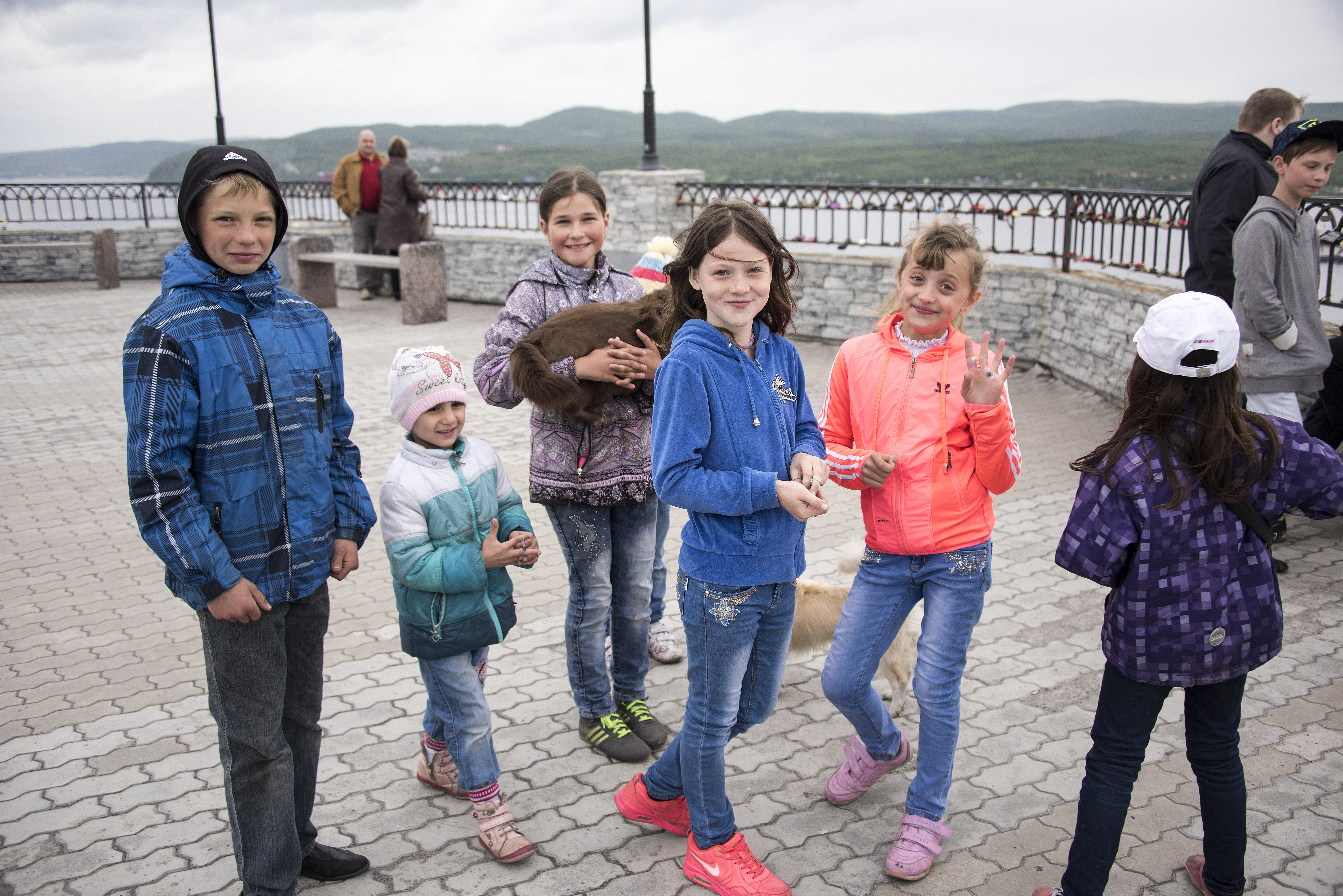 NORTH POLE North Pole Keep